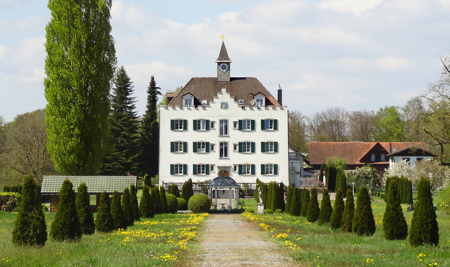 Liebburg Castle in Dettighofen (Lengwil), Switzerland